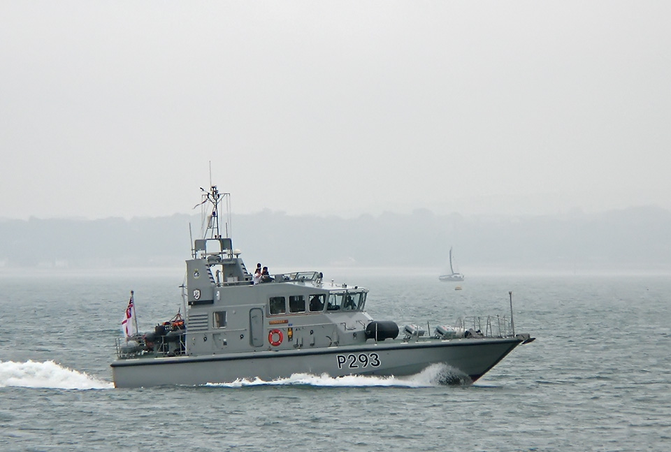 HMS Ranger (P293) photographed on the 11 of June 2007 by Brian.Burnell.